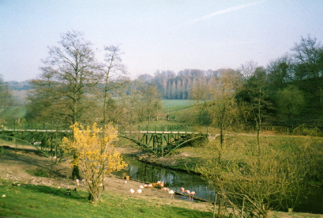 Cricket St Thomas, wildlife park Flamingoes in the landscaped grounds of the Cricket St Thomas estate in Somerset